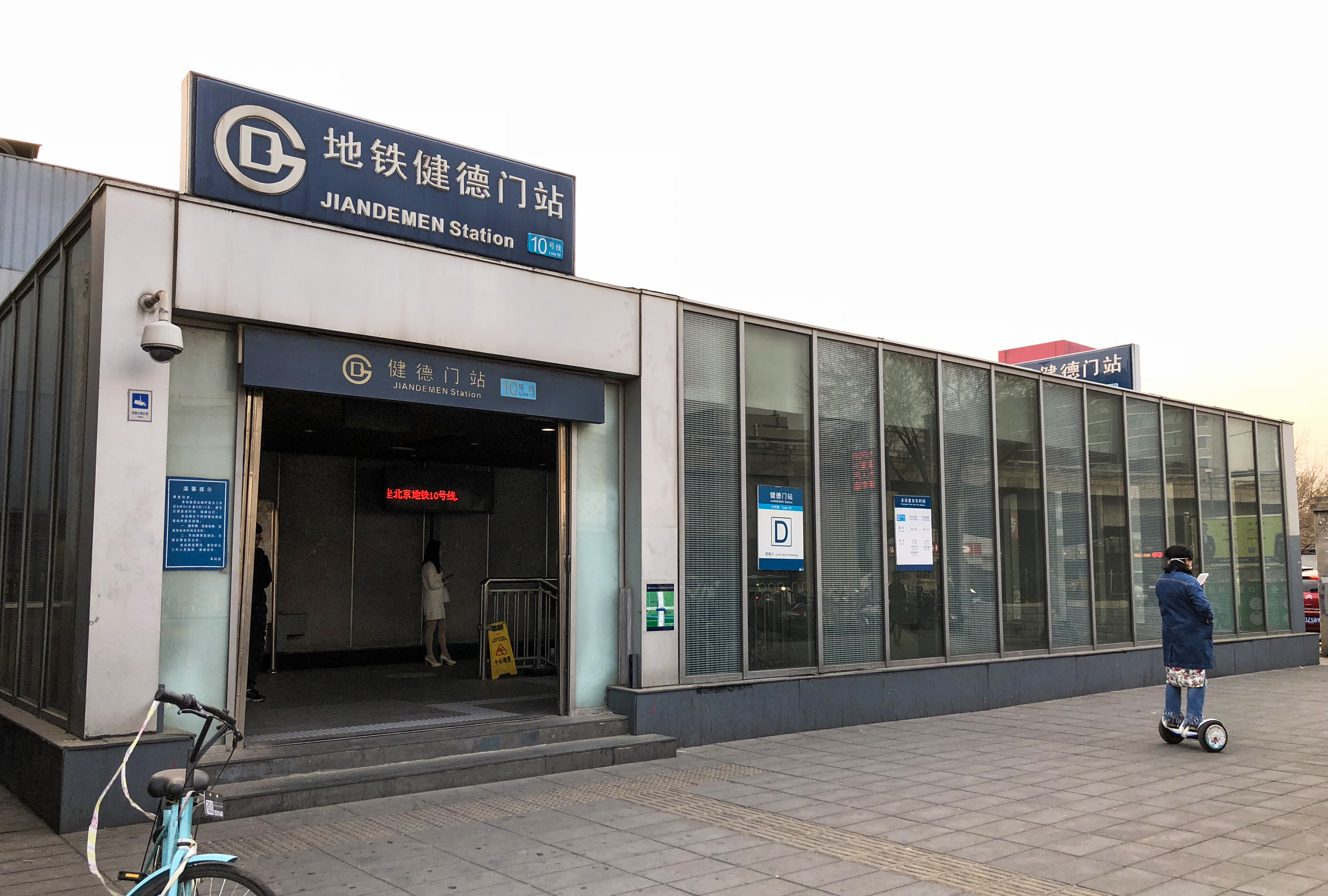 A McDonald's is on its north... time to try some Szechuan flavored sauce!